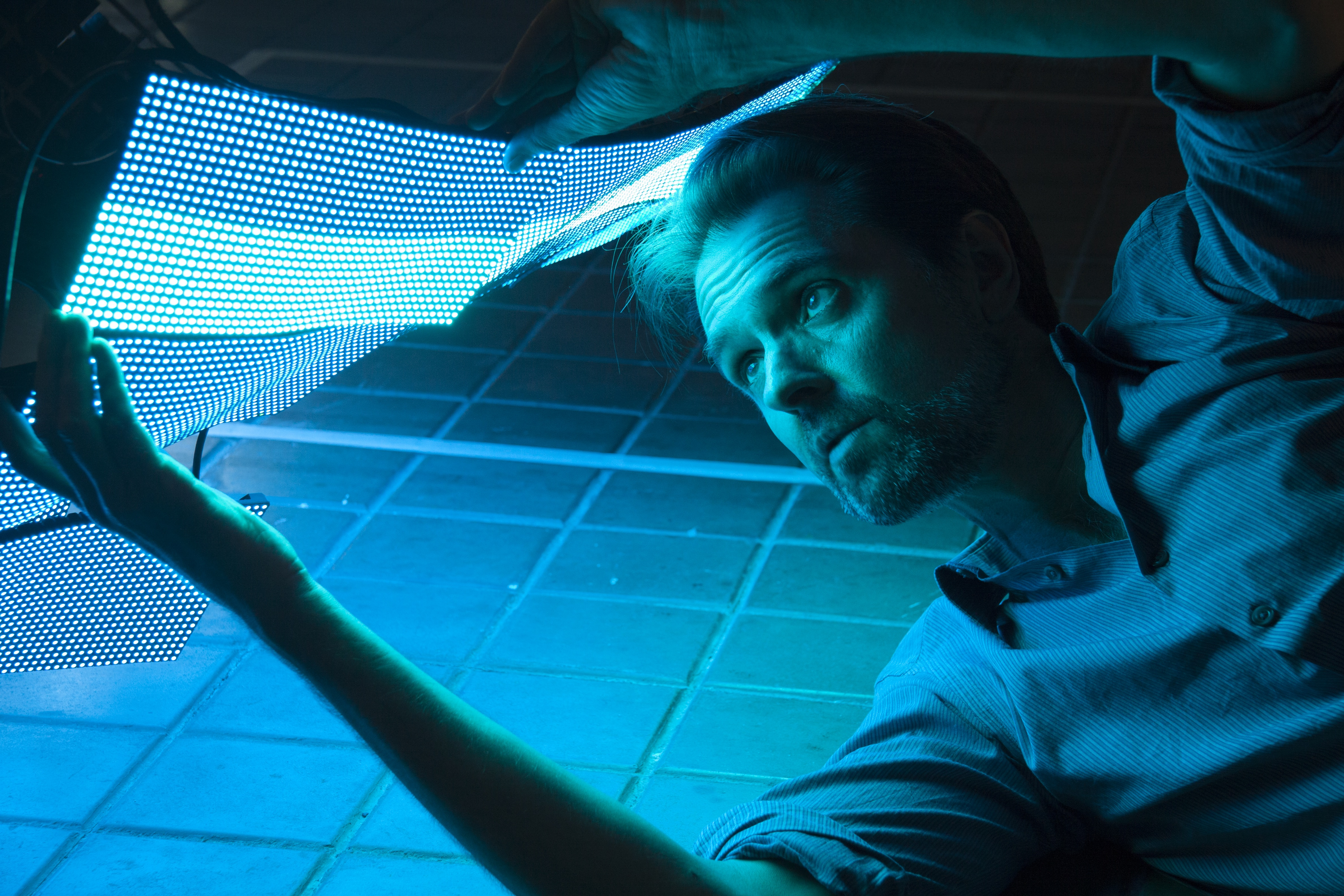 The contemporary artist, Daniel Canogar, next to his piece called "Echo".